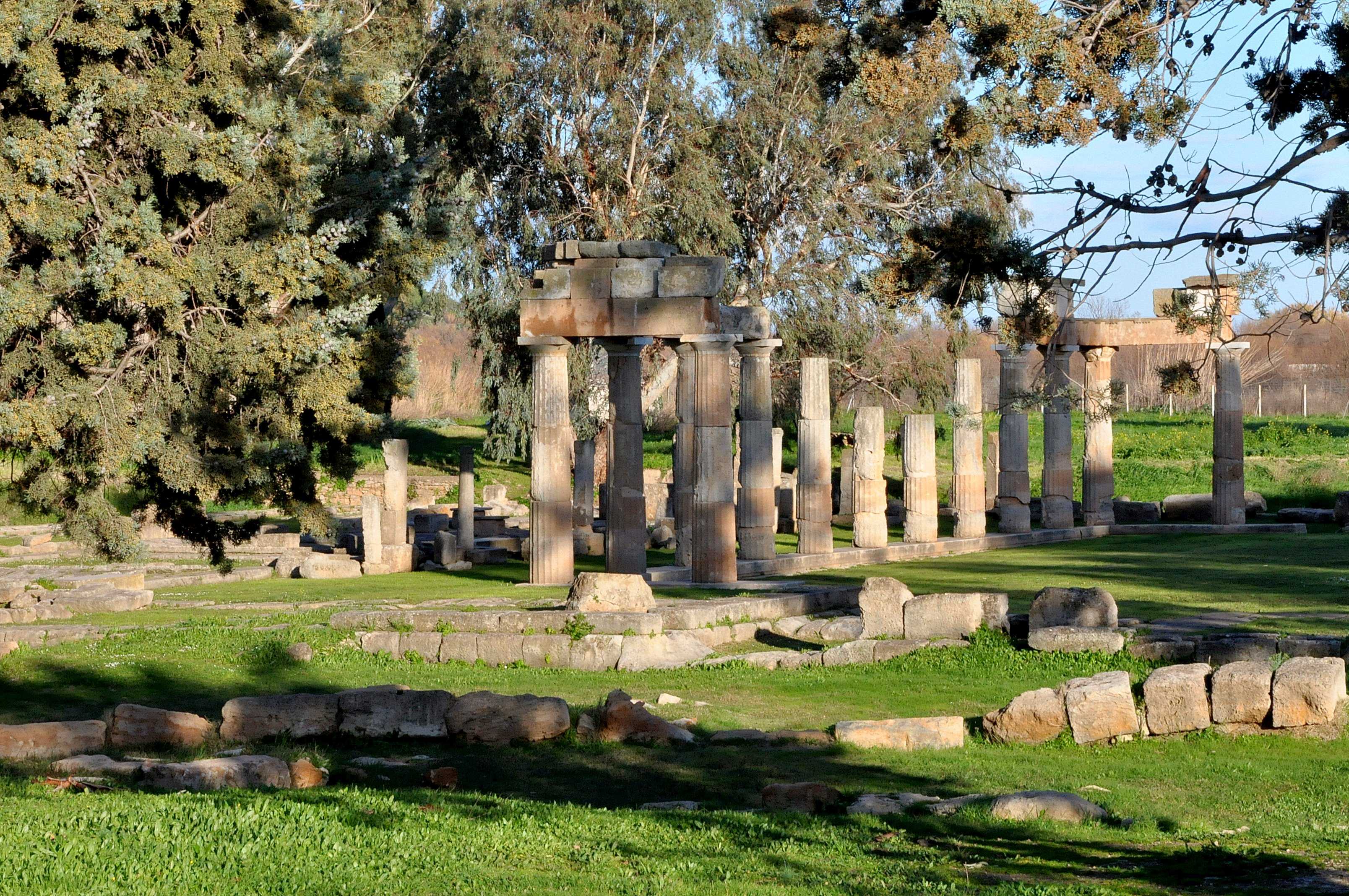 Vravrona, Attiki, Greece. The tempel of goddess Artemis, as it is seen from the public road.